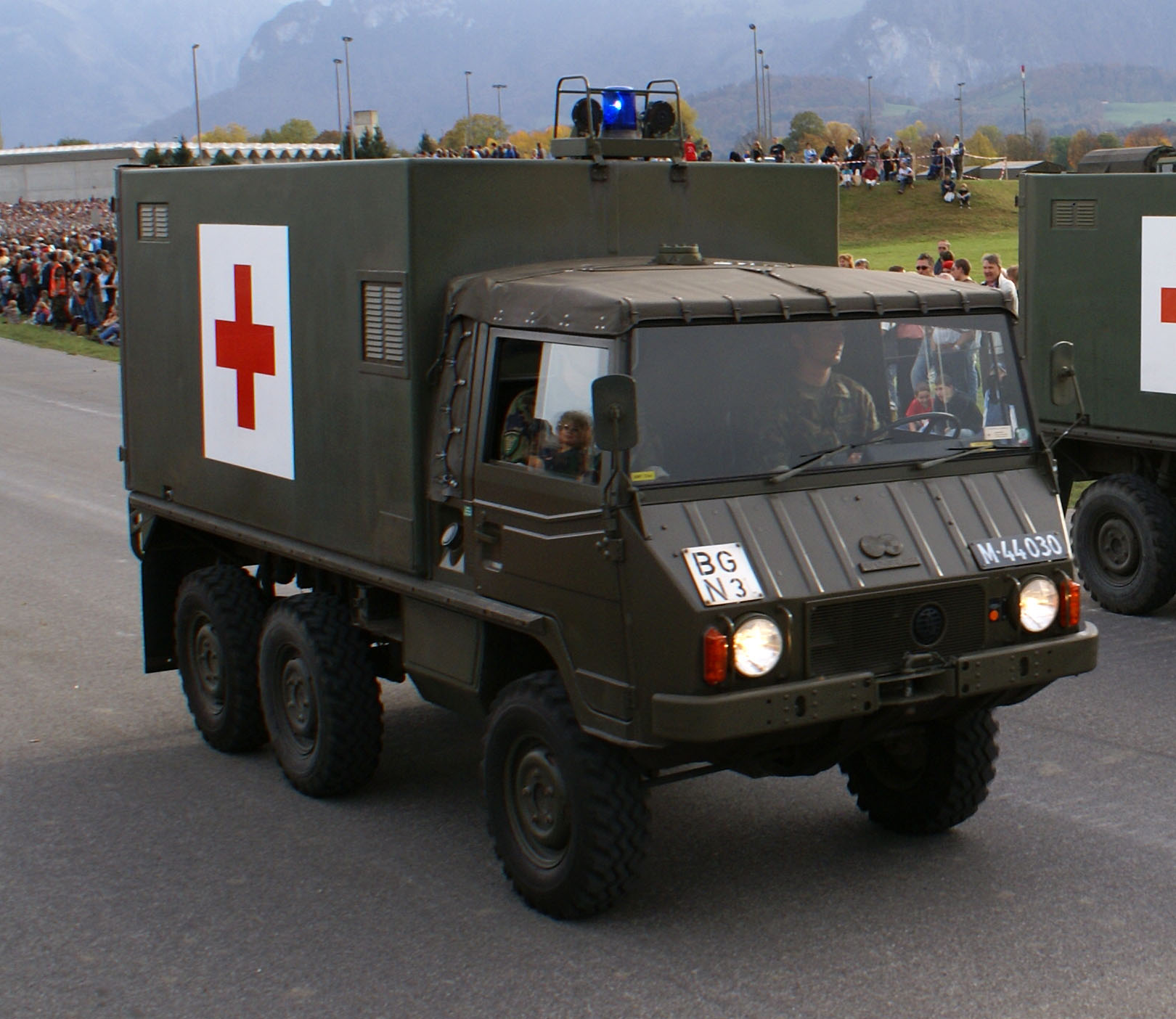 Swiss Army. Pinzgauer military ambulance. Participating in the "Steel Parade" of the 2006 Army Days, Thun.